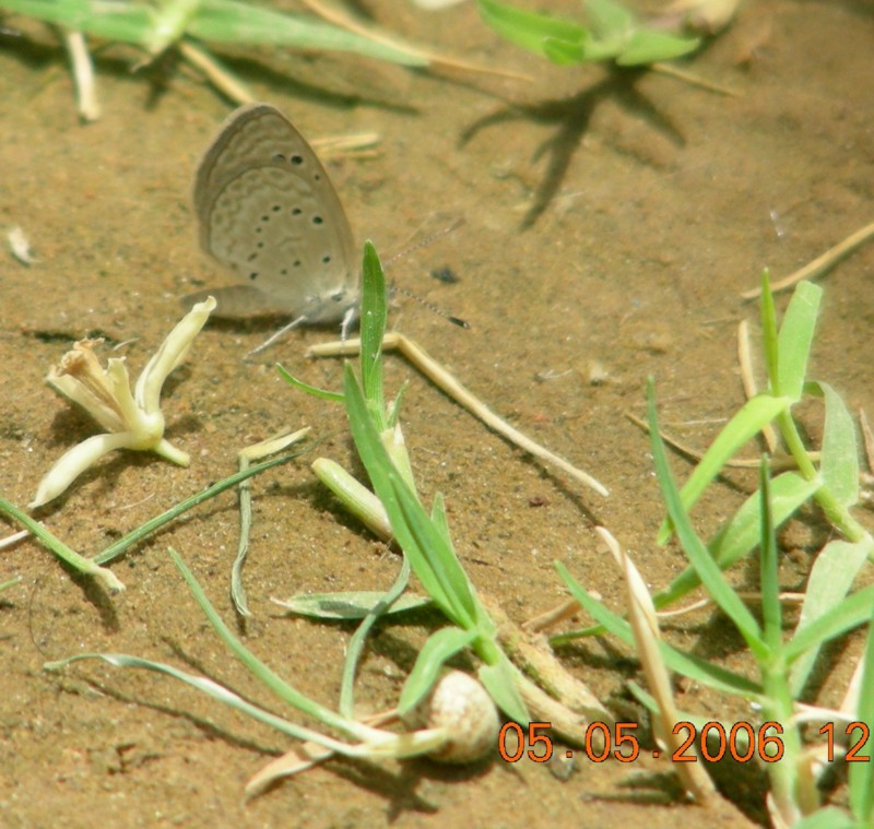 Self-work. Photographed in garden of my desert home in Jaisalmer district, Rajasthan.